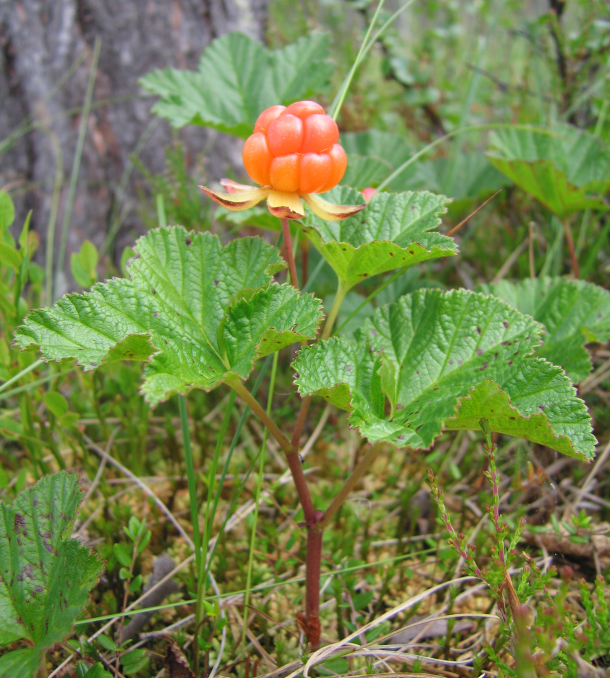 ripe cloudberry (rubus chamaemorus) in a swedish swamp camera: canon powershot s70